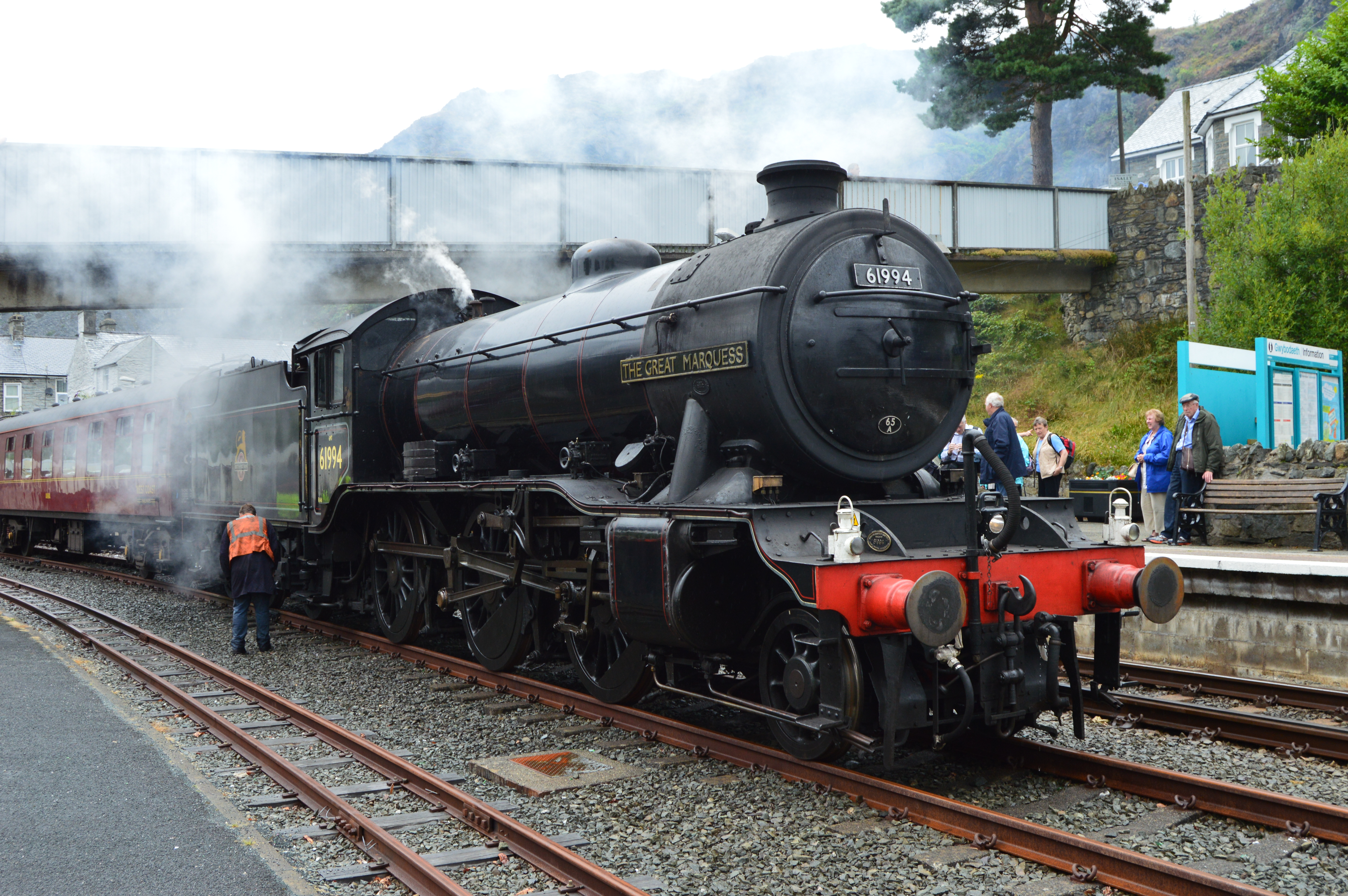 61994 The Great Marquess resting at Blaenau Ffestiniog.